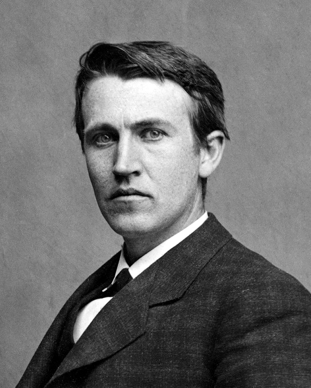 Thomas Edison portrait. Cropped from Library of Congress copy. Edited Version. Dust removed by Arad.